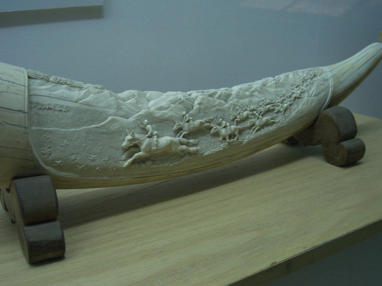 This intricate bone carving was seen at the Hohhot Museum in Hohhot, Inner Mongolia, China.